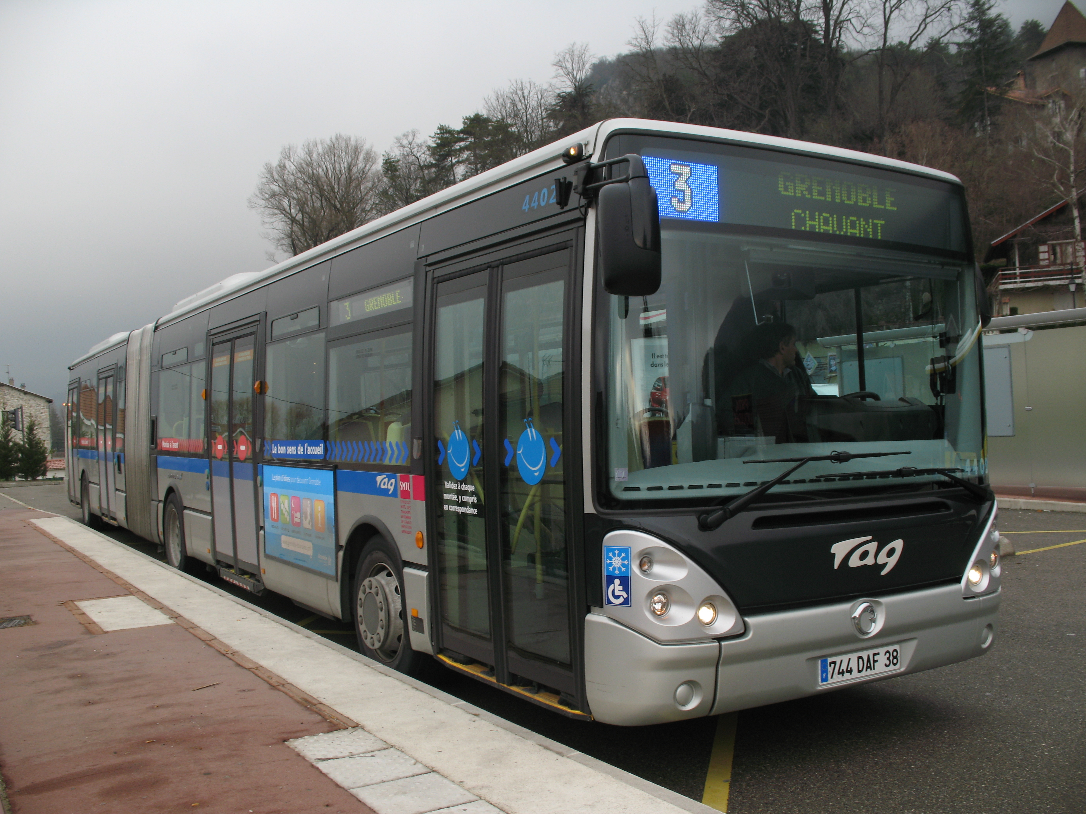 An Irisbus Citelis 18 bus at SEMITAG's network (Grenoble-France) - Route 3 - Fontanil-Cornillon Croix de la Rochette station.